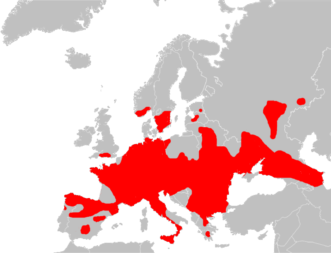 Coronella austriaca range map.